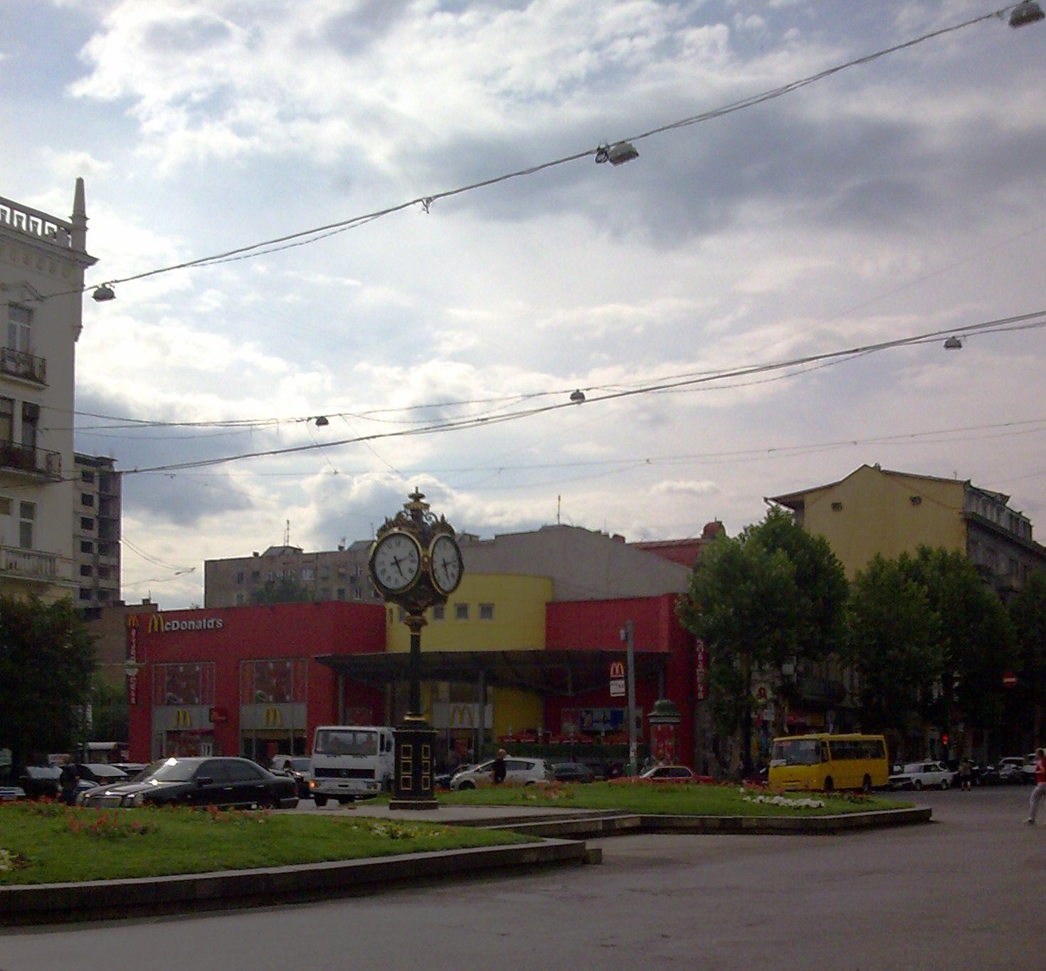 Marjanishvili Square, Tbilisi, Georgia. June 2008